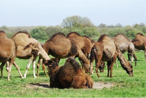 A herd of dairy camels at Smits Camel Dairy, Berlicum, Sint-Michielsgestel, the Netherlands.